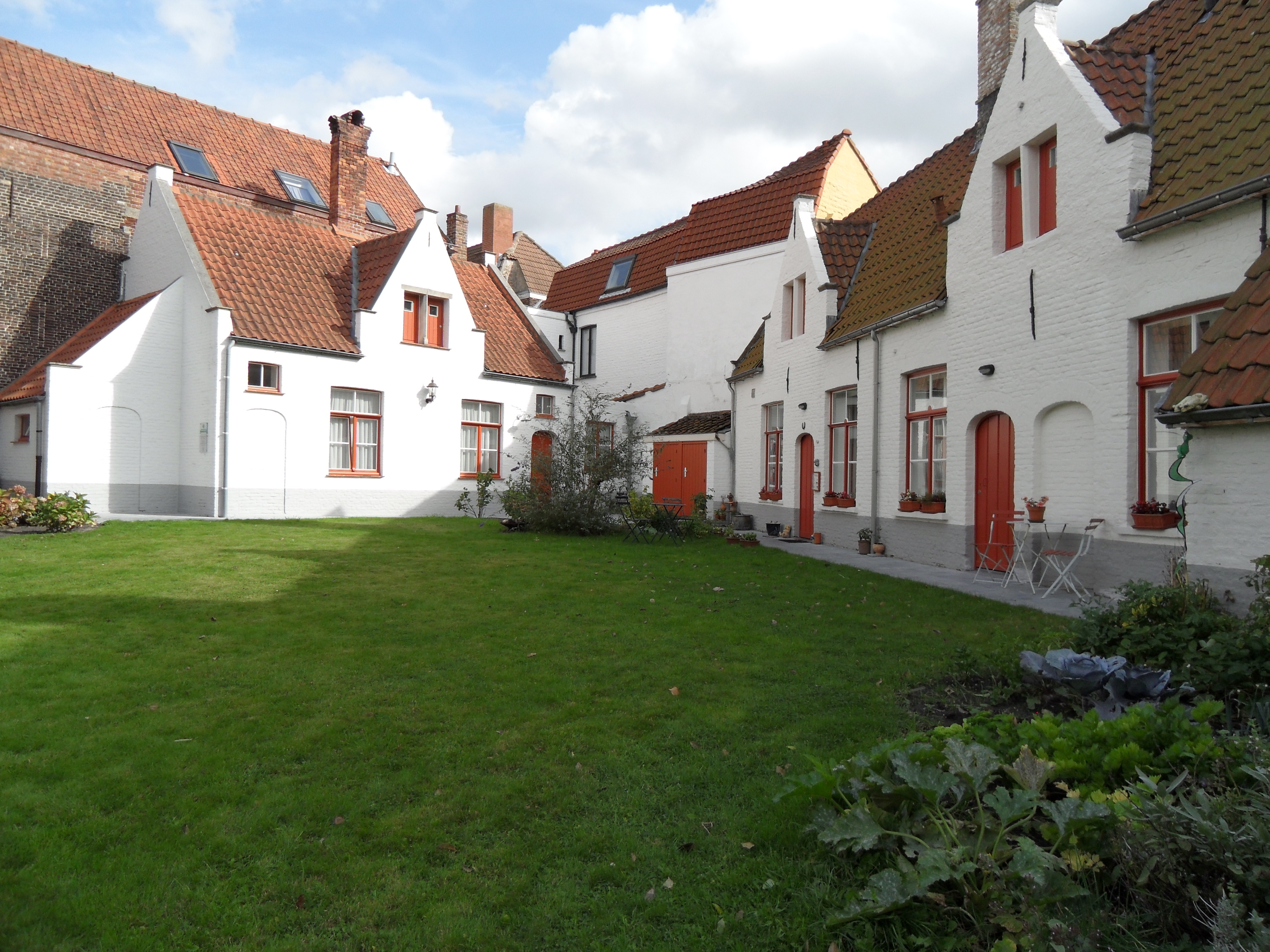 Godshuizen Spanoghe in Bruges